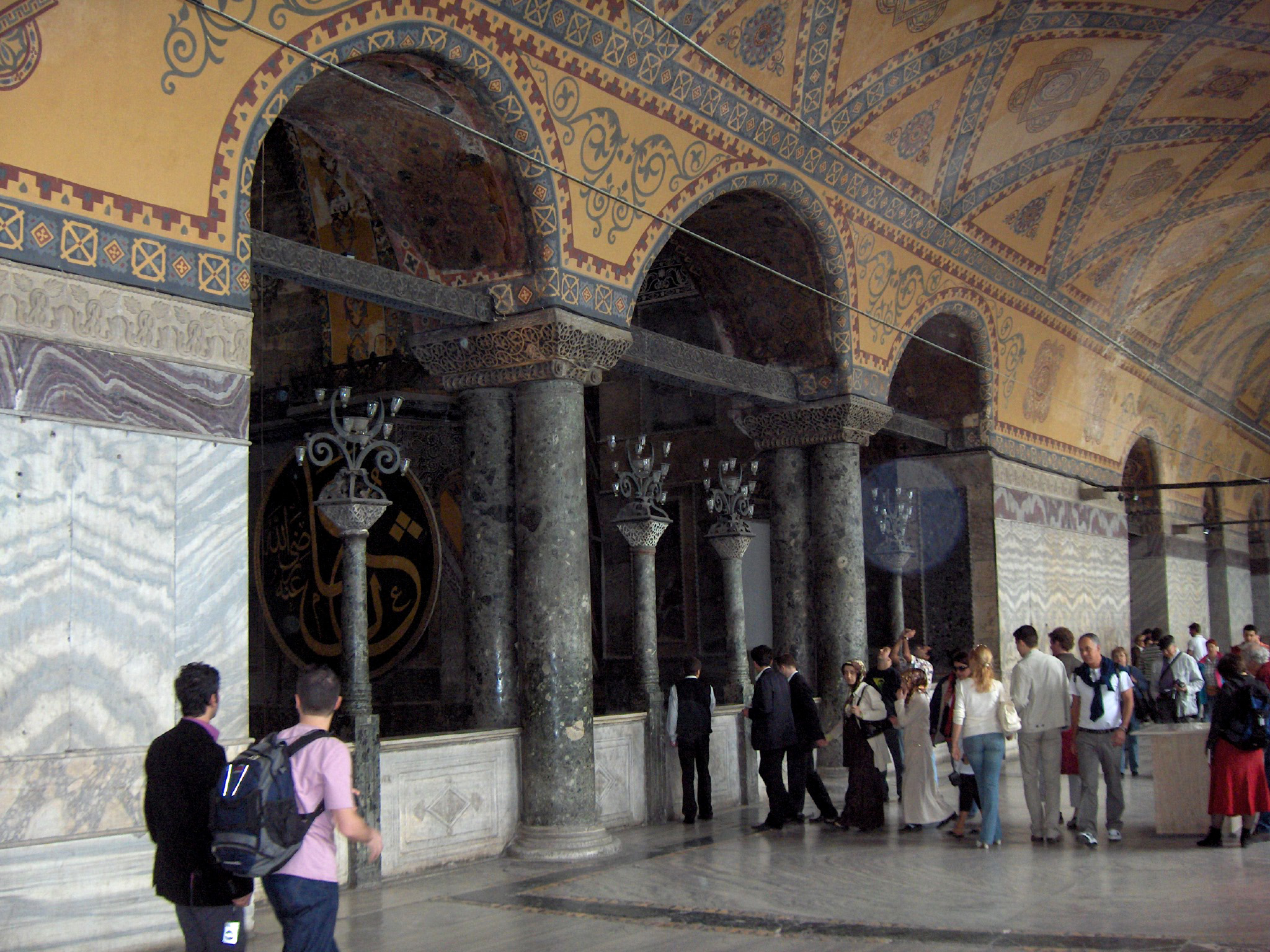 Hagia Sophia ; inside view : western upper gallery; Istanbul, Turkey